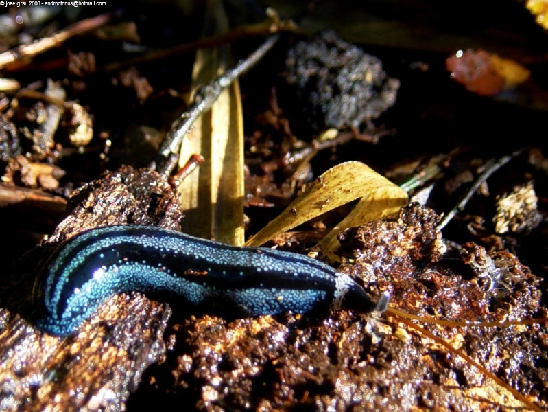 Pseudogeoplana reticulata Graff, (1899)